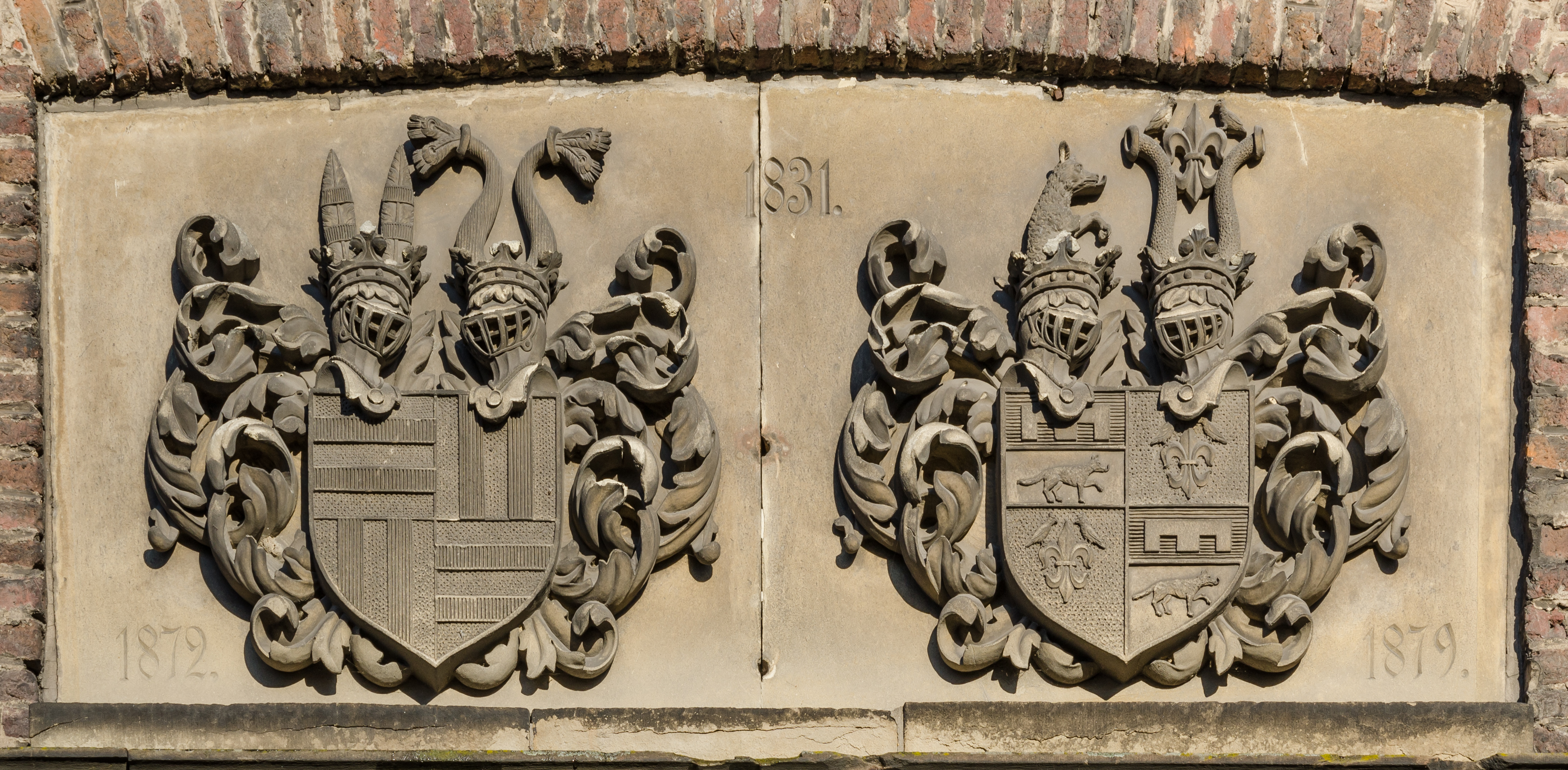 Combined coat of arms of Friedrich von Fürstenberg zu Hugenpoet and his wife Anna-Franziska Gräfin Wolff Metternich zur Gracht